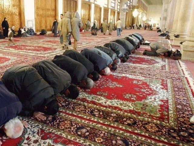 Muslims praying towards Mecca; Umayyad Mosque, Damascus.